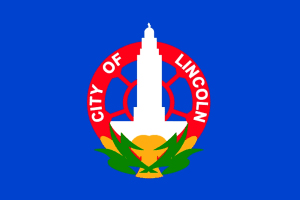 Flag of the City of Lincoln, Nebraska.